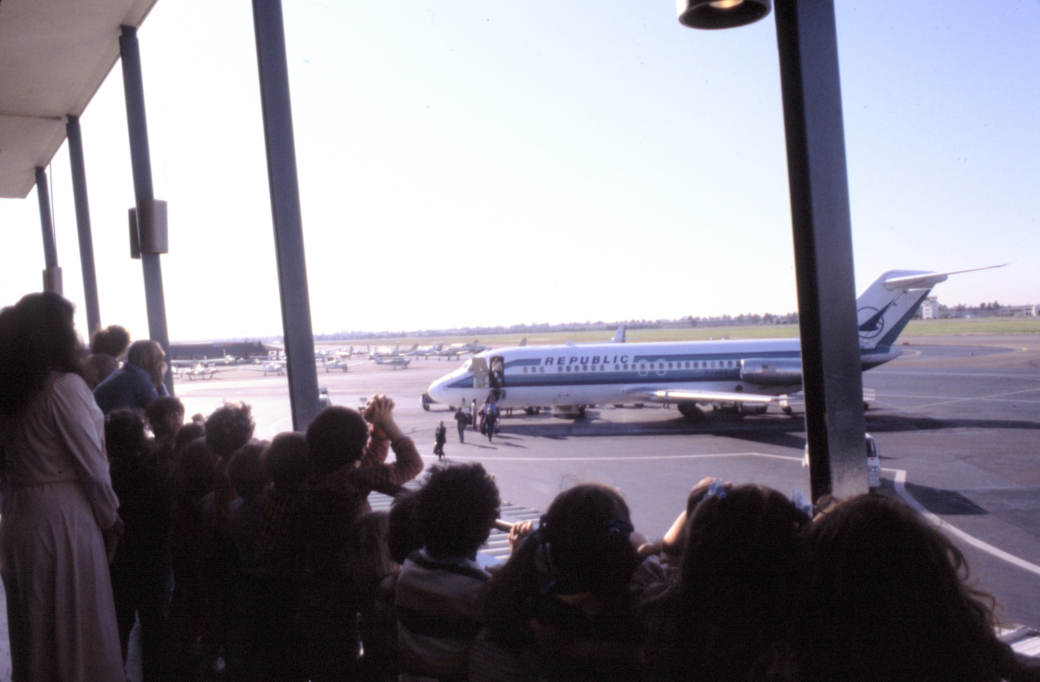 There are no known copyright restrictions on this image. All future uses of this photo should include the courtesy line, "Photo courtesy Orange County Archives." Comments are welcome after reading our Comment Policy .